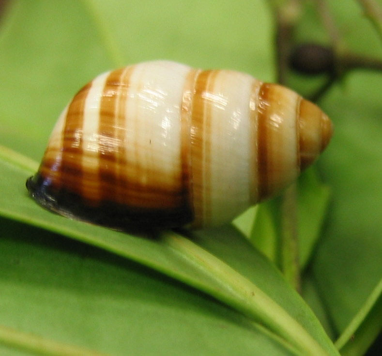 Achatinella bulimoides. This snail was thought to be extinct for the past 20 years until the Army rediscovered it in Oahu's Ko'olau Mountains.